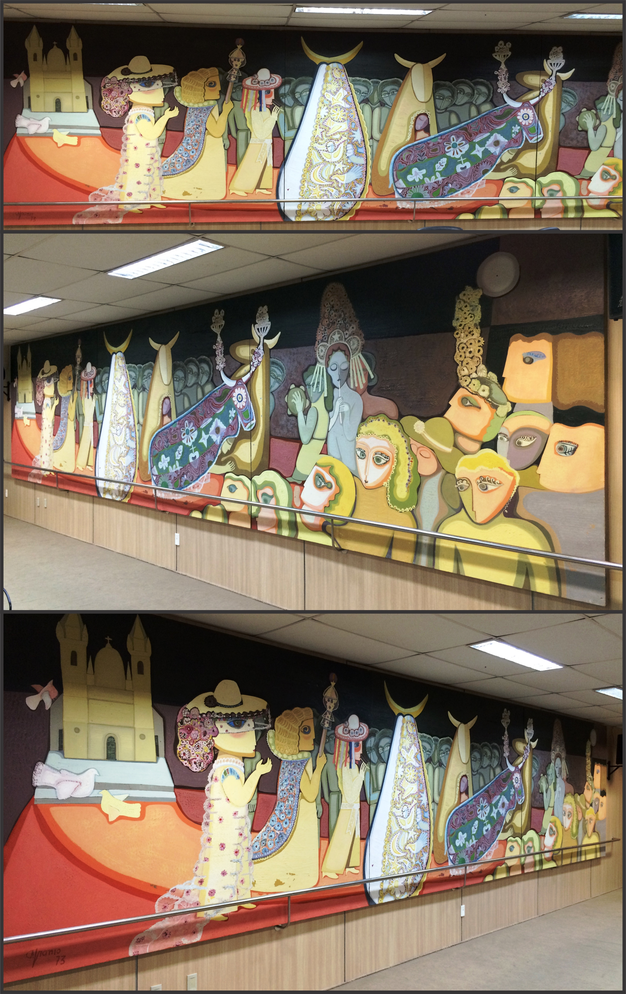 Panel screen designed in 1972 for the noble hall of the Federal University of Piauí (UFPI) inspired by Northeast festival, "Bumba meu Boi".